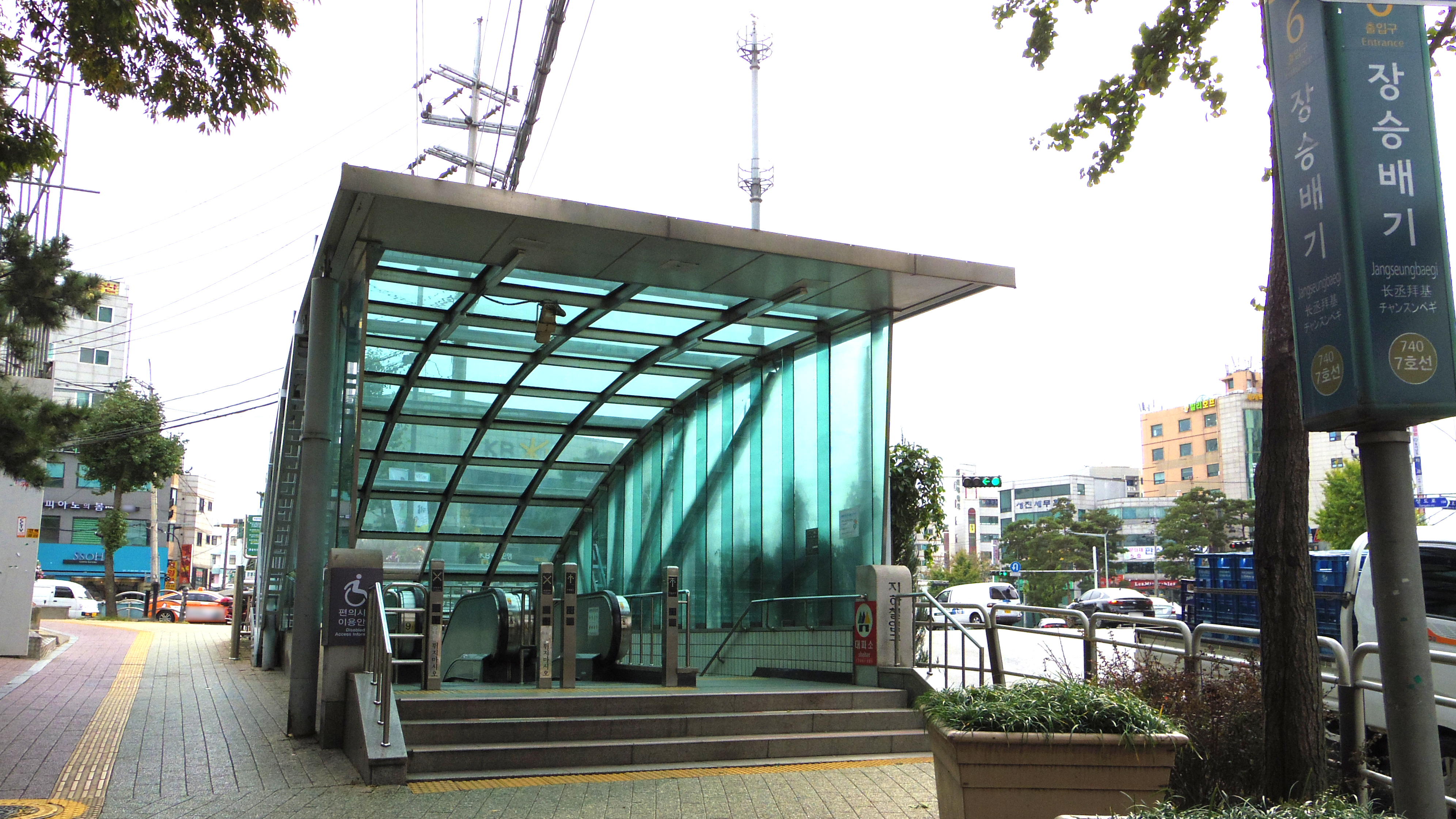 The no.6 entrance to Jangseungbaegi Station on the Seoul Metro Line 7 in Dongjak-gu, Seoul, Republic of Korea(South Korea)